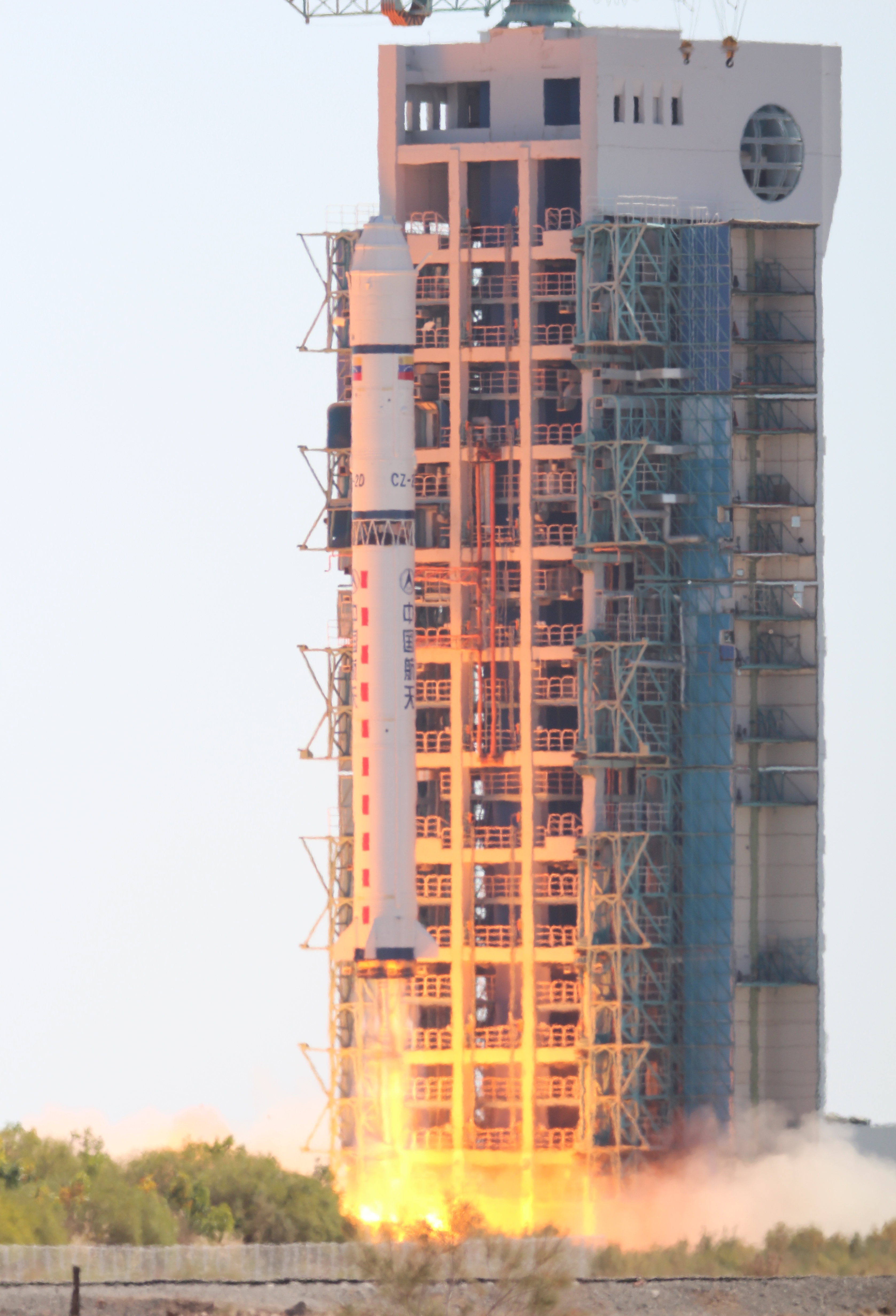 Launch of the first Venezuelan Earth observation satellite, VRSS-1 / Miranda, by the LM-2D launch vehicle. Apochromatic telescope 80 mm / 480 mm, Canon T3i. Location: Jiuquan Satellite Launch Center, Gansu Province, China.